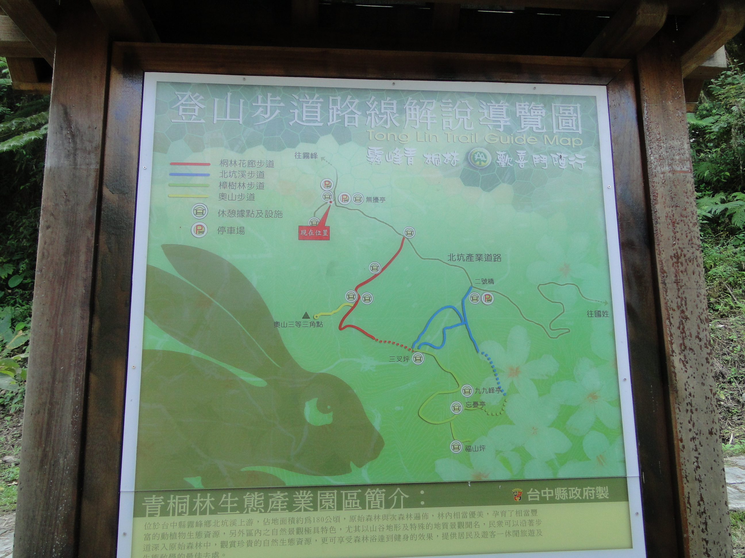 QingTongLin Eco-Park trail guide map